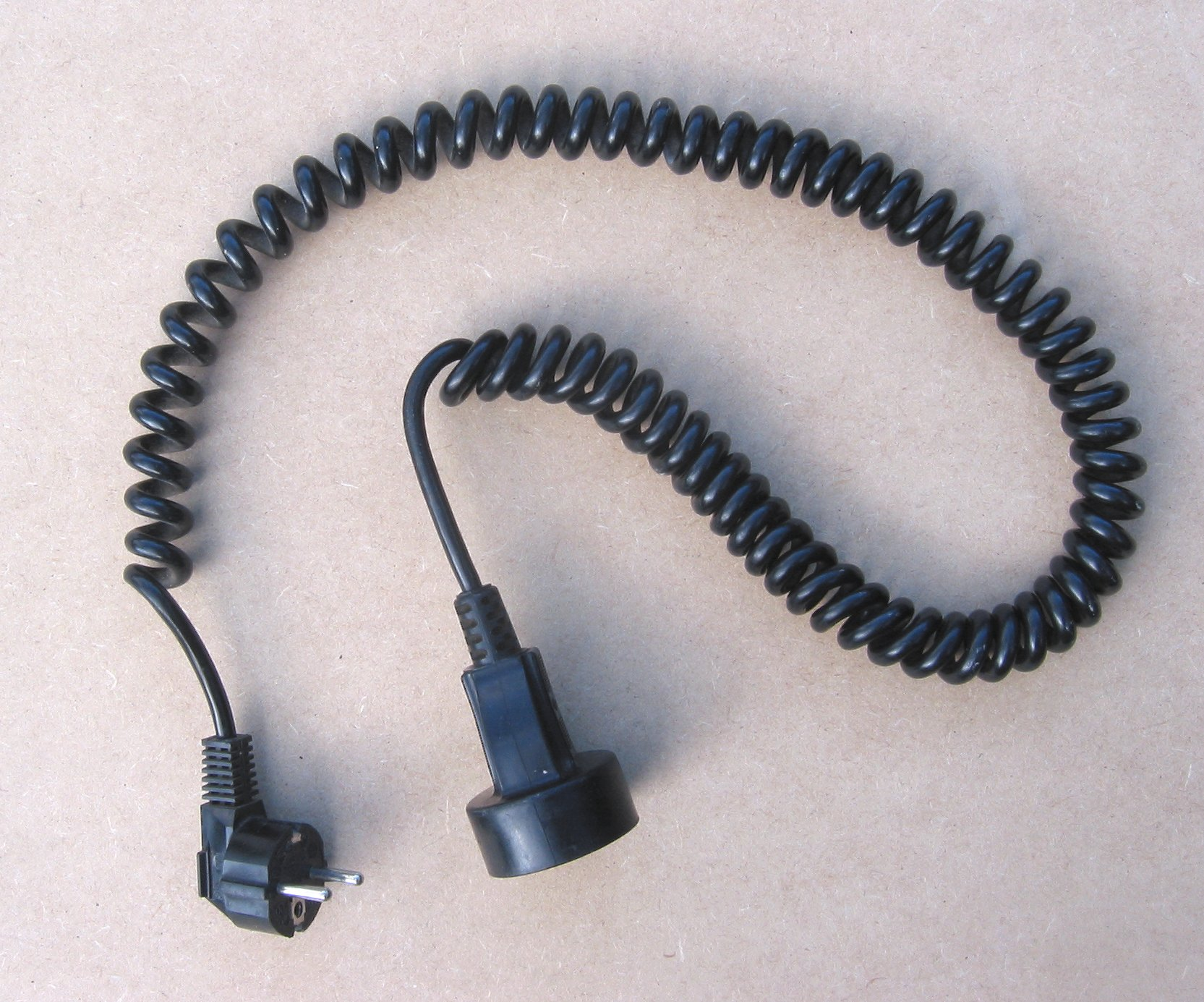 extension cord